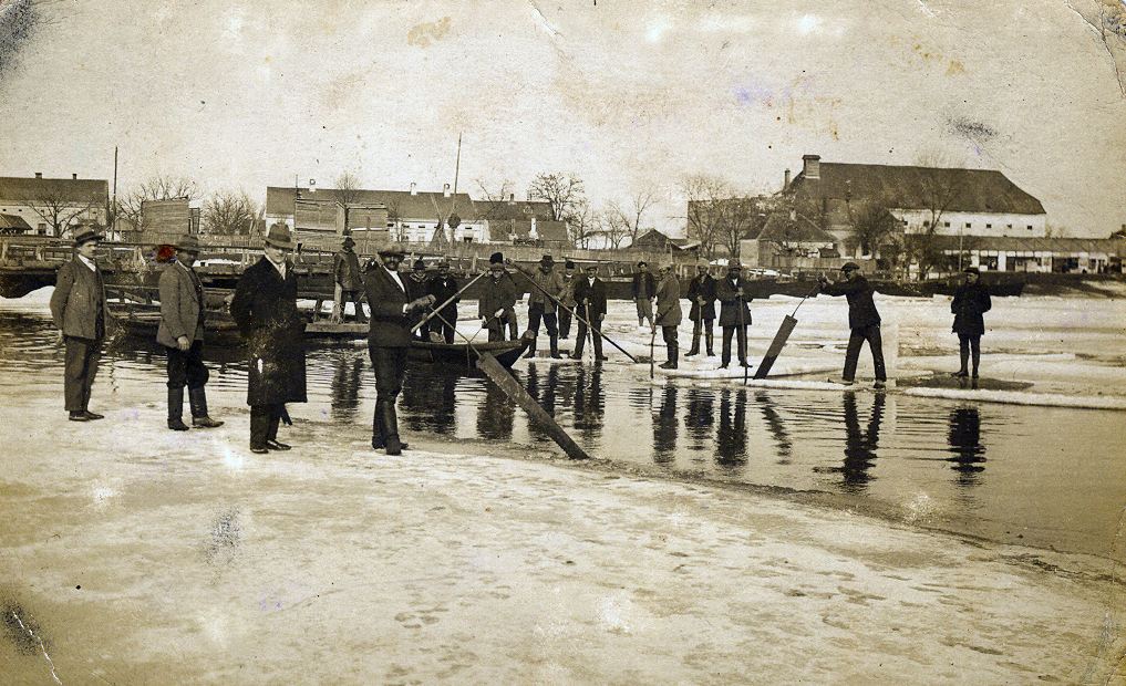 Cutting of ice on Sava, Sremska Mitrovica, March 1929..